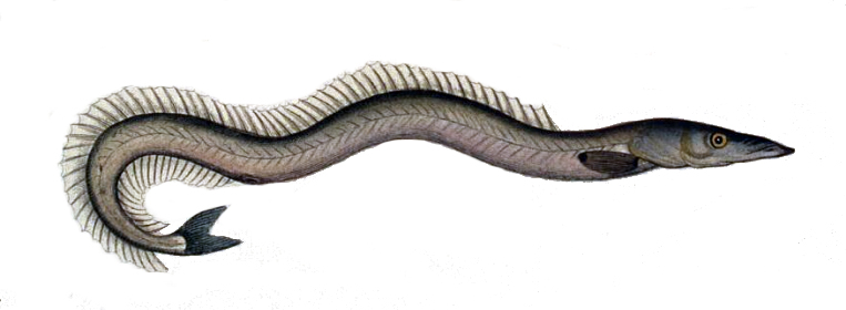 Ammodytes tobianus